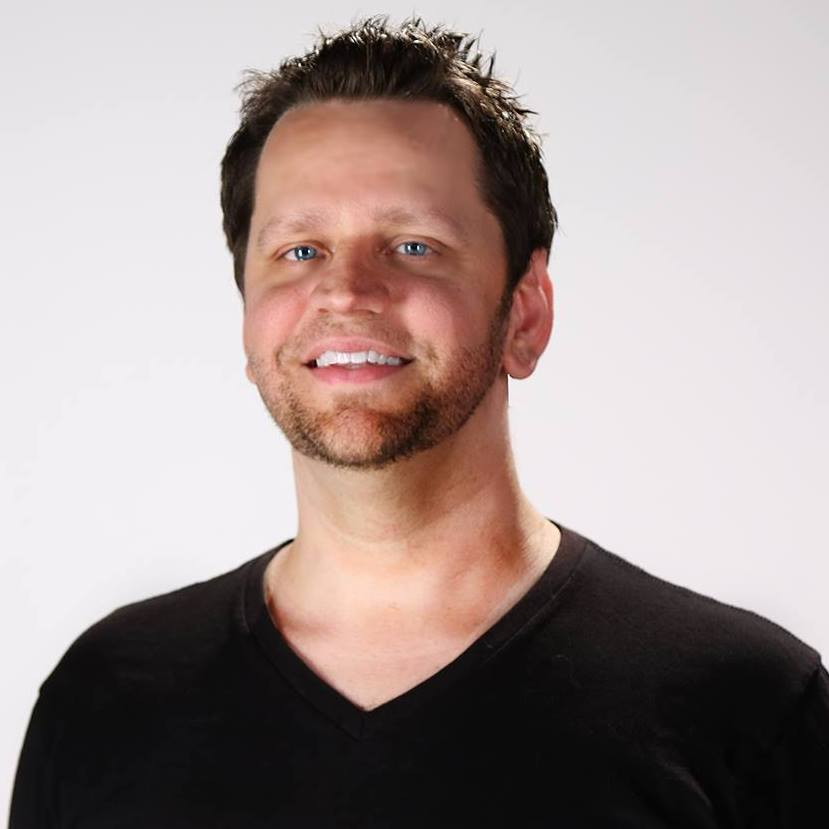 Michael during filming of the Roller Life (2016) "Look Inside" promo.